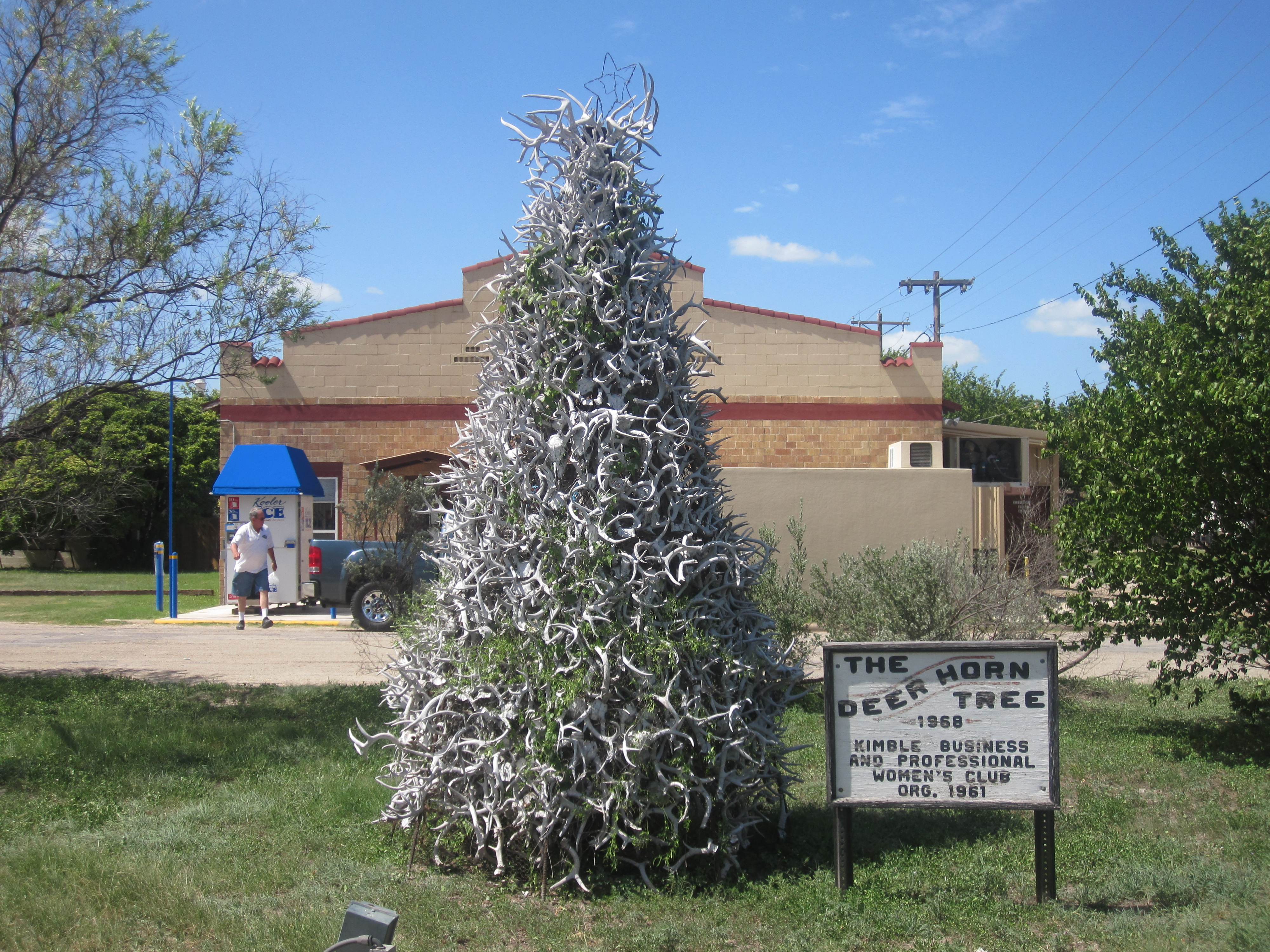 I took photo with Canon camera in Junction, TX.